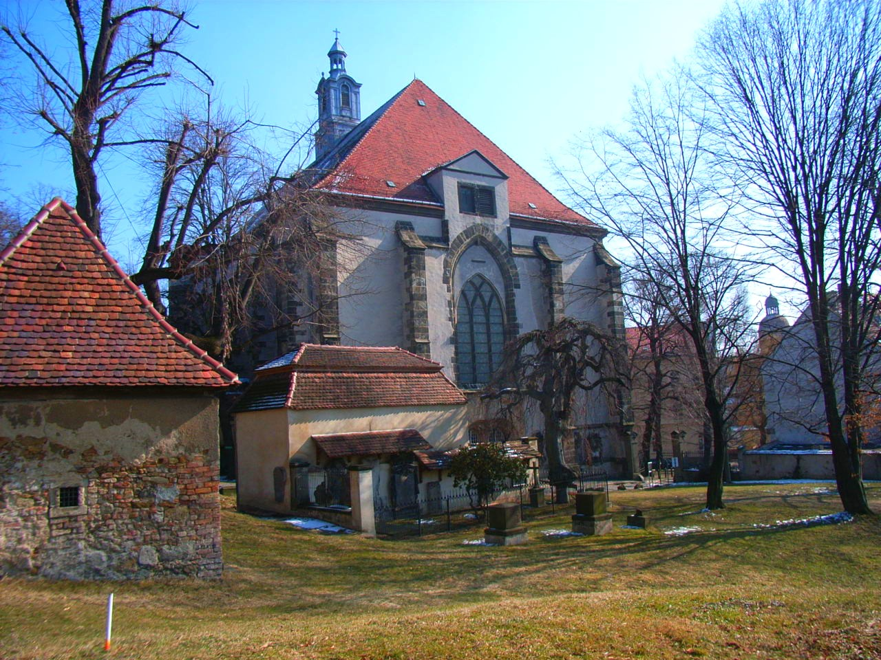 church St. Nicholas in Görlitz, Saxony